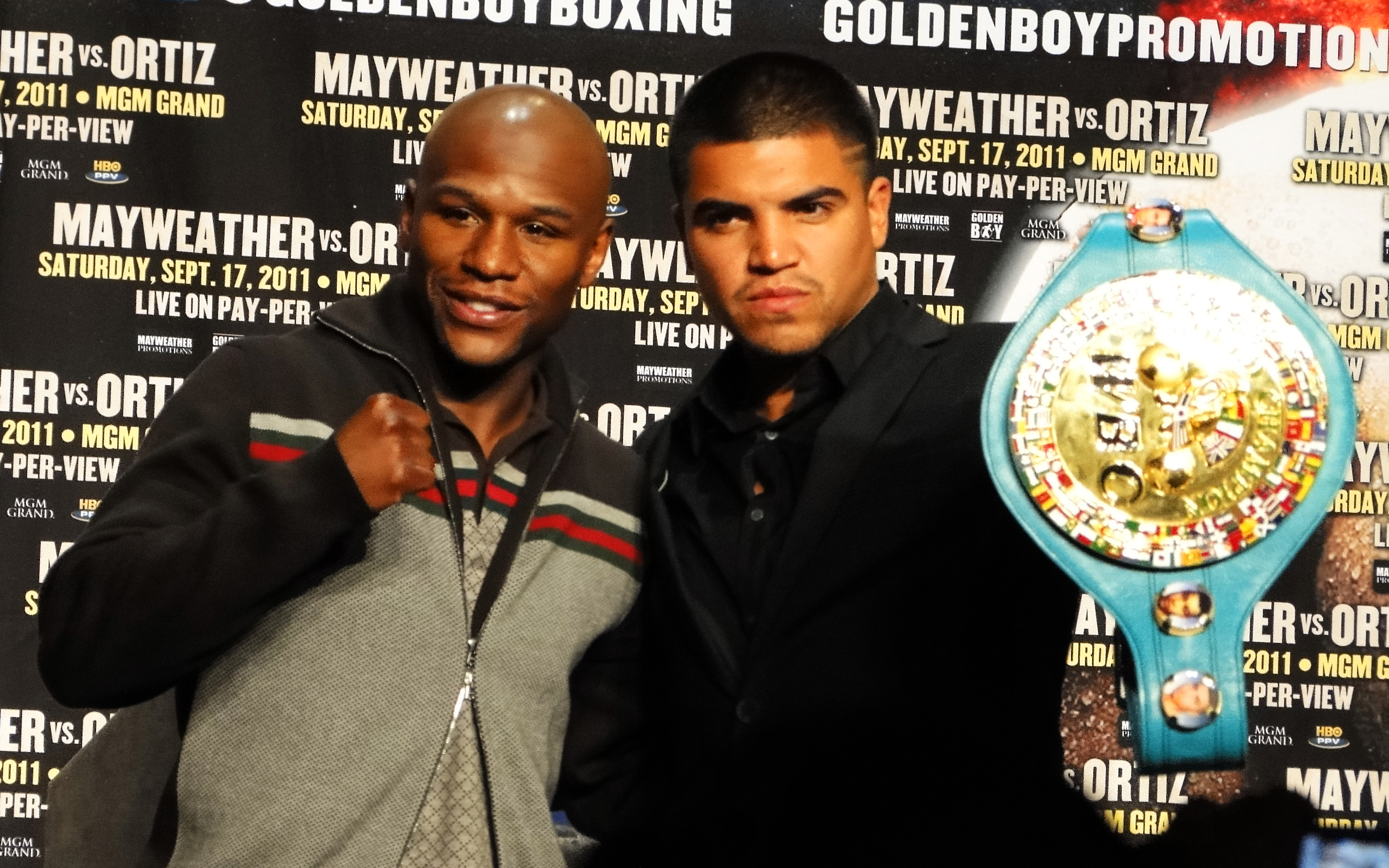 Floyd Mayweather and Victor Ortiz during thier press conference at the Hudson Theatre on June 28, 2011.